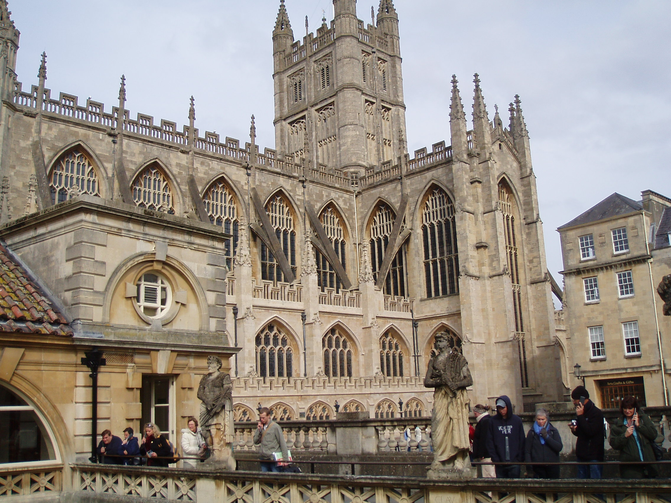 View Of Bath Abbey From The Roman Baths Gallery - March 2006